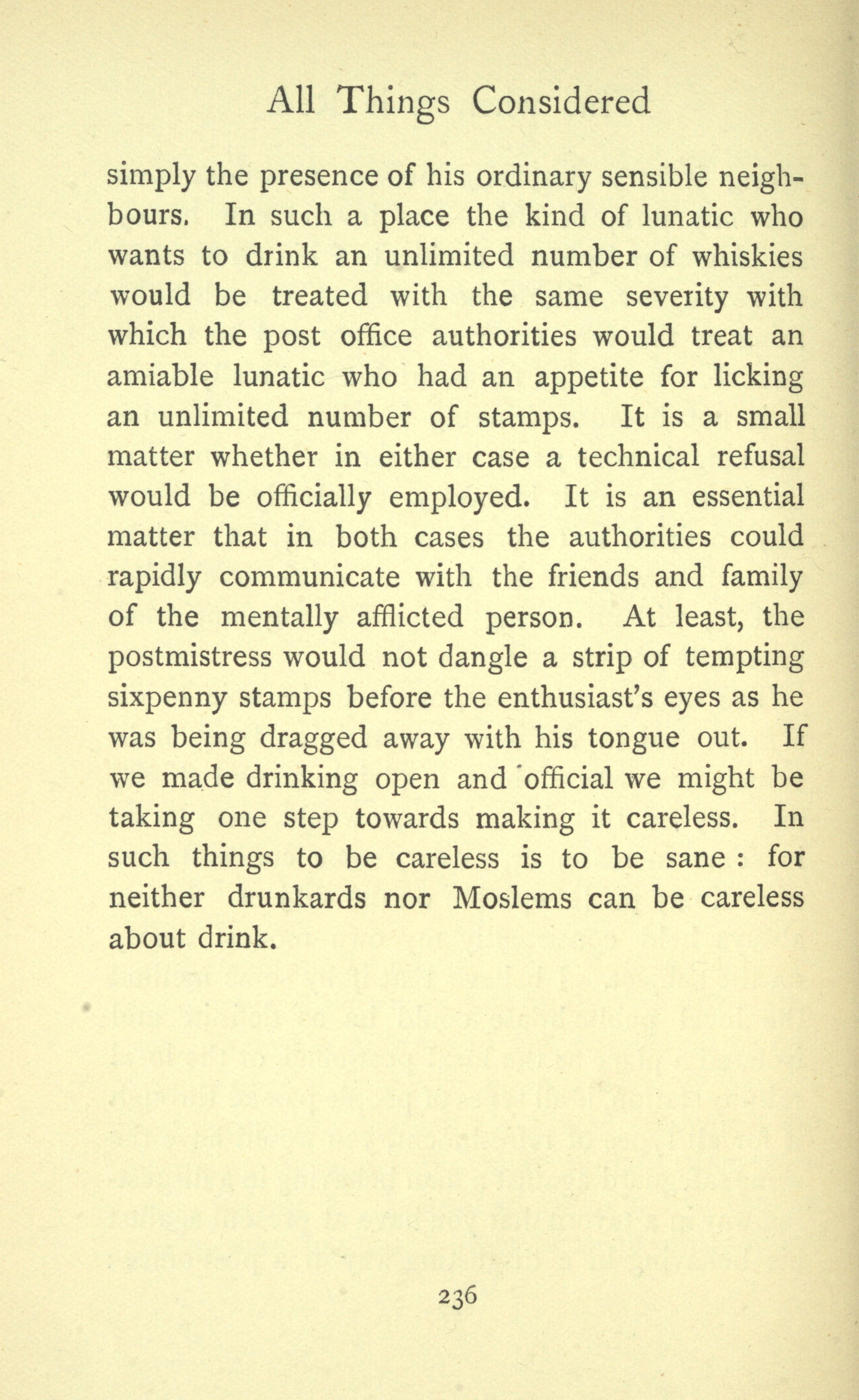 All Things Considered, Methuen, London, 1908.